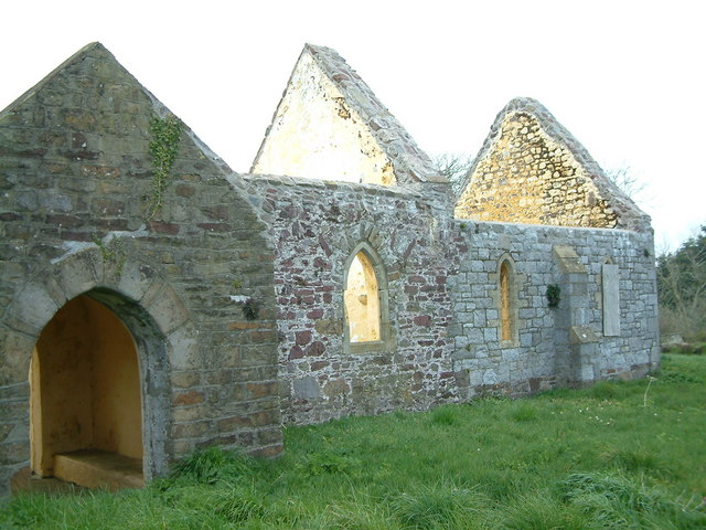 Chapel ruin at Hasguard This roofless chapel (St. Peter, Anglican) has been added to in different stone finishes. The stonework looks complete, but windows and roof have disappeared. It dates from 1800, and burials and baptisms were carried out as recently as 1969.